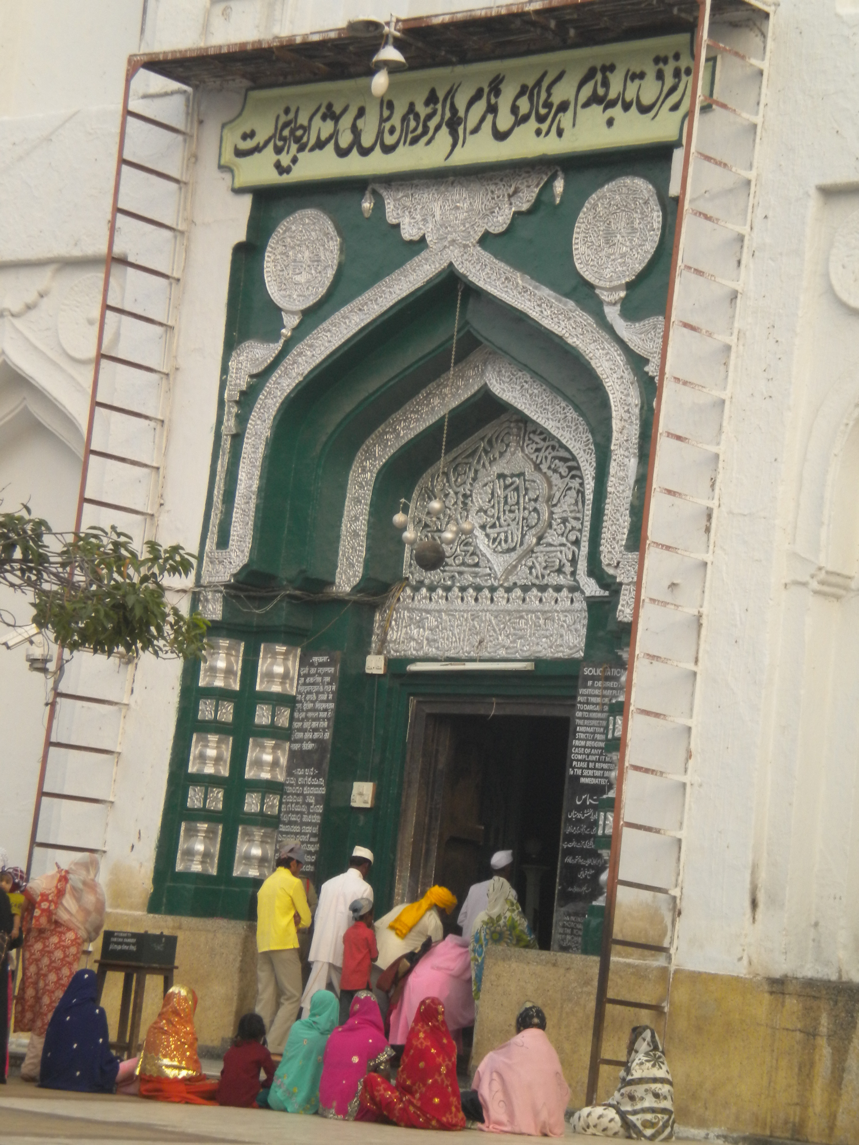 Dargah